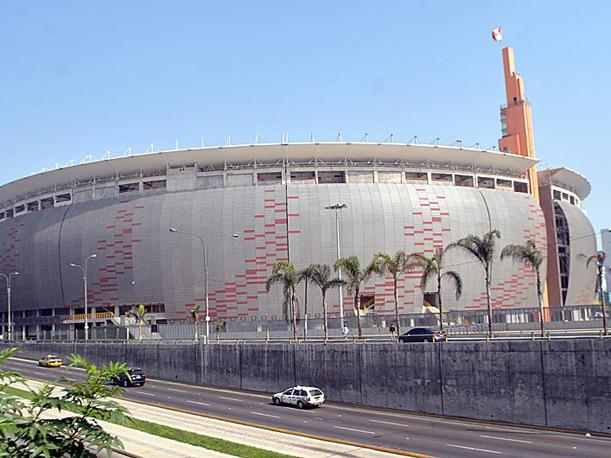 National Stadium of Peru